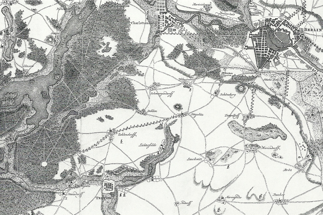 Carte Topographique des Environs de Berlin, Potsdam & Spandow 1780